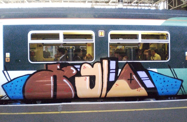 Vandalised train, London Bridge Railway Station